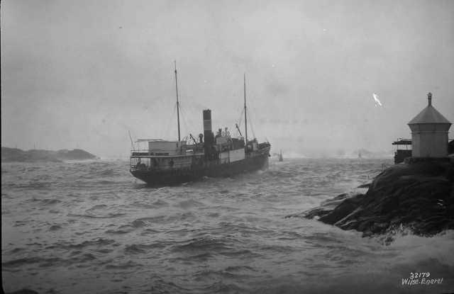 Norwegian local steamer DS Mosken in Lofoten. This ship was built in 1924, and were also employed as a relief ship in the coastal express service (Hurtigruten). Norsk (bokmål): Lokalruteskipet DS «Mosken», bygd i 1924. Skipet tilhørte rederiet Vesteraalens Dampskibsselskab (VDS) på Stokmarknes, og ble også benyttet som avløserskip i hurtigruten. Bildet er tatt i Lofoten.